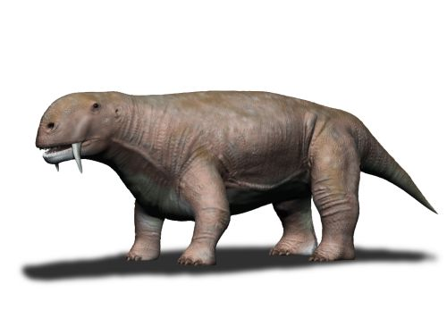 Tiarajudens